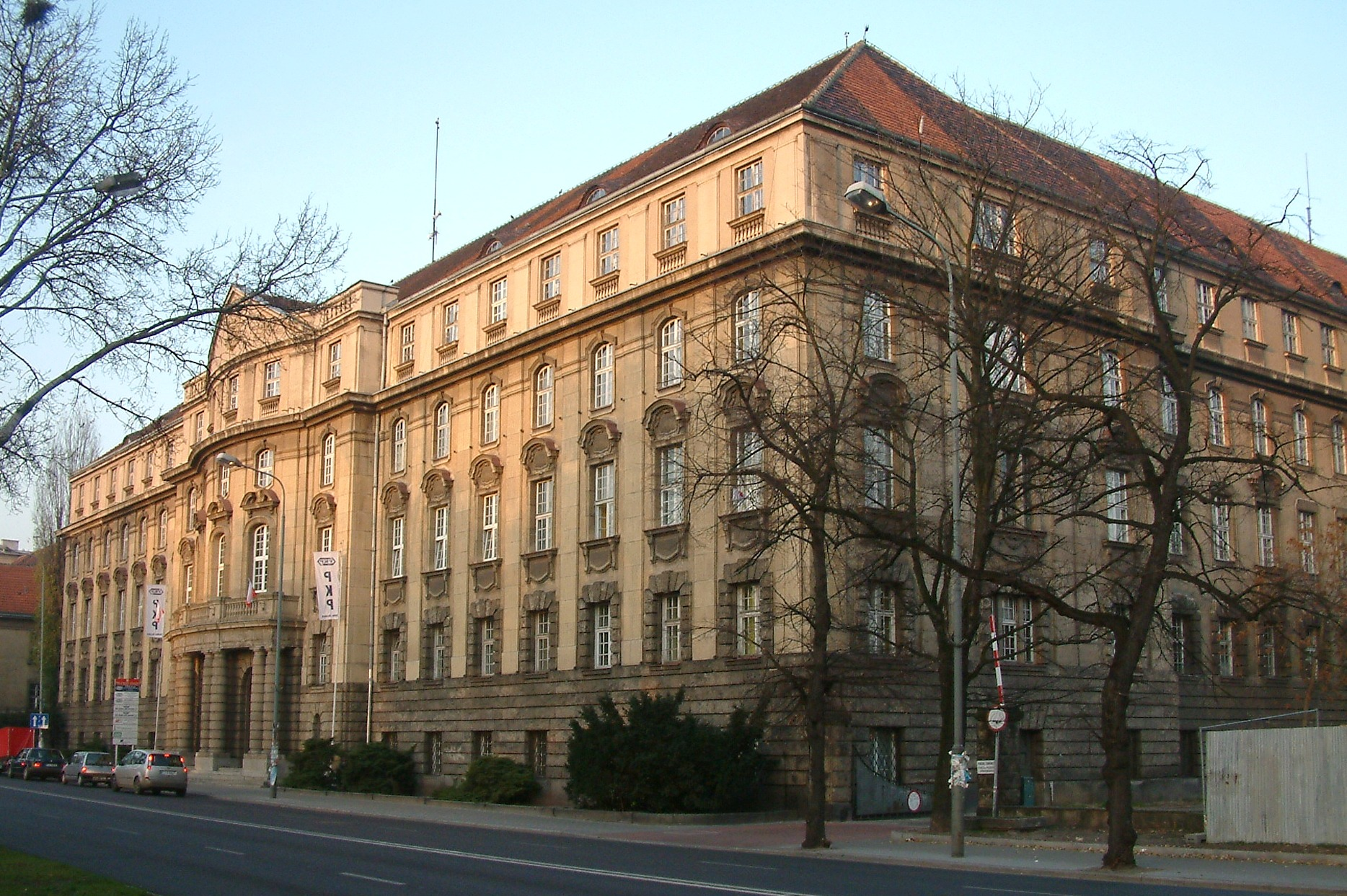 Building of PKP in Poznań